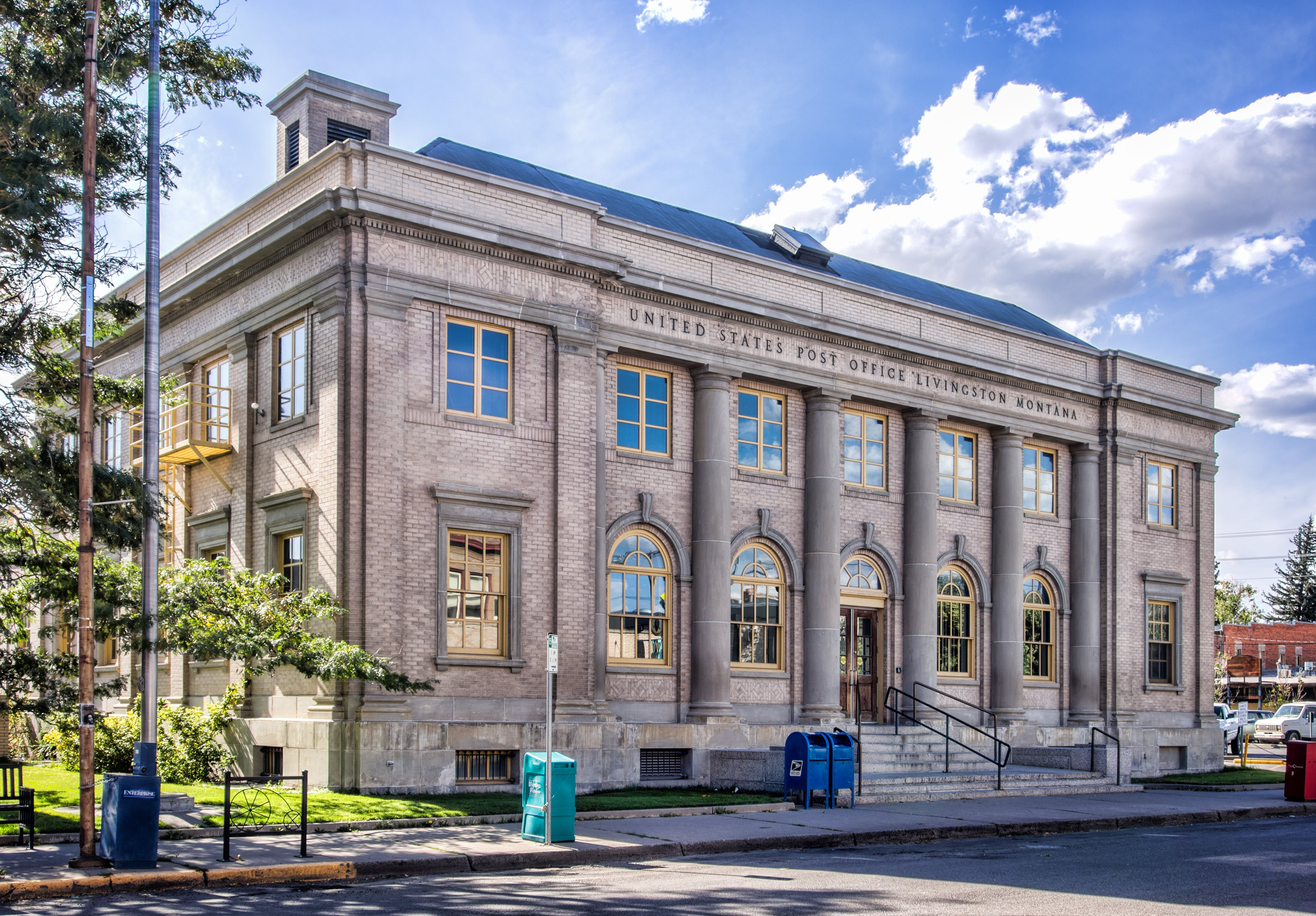 US Post Office-Livingston Main, 105 N. 2nd St. Livingston